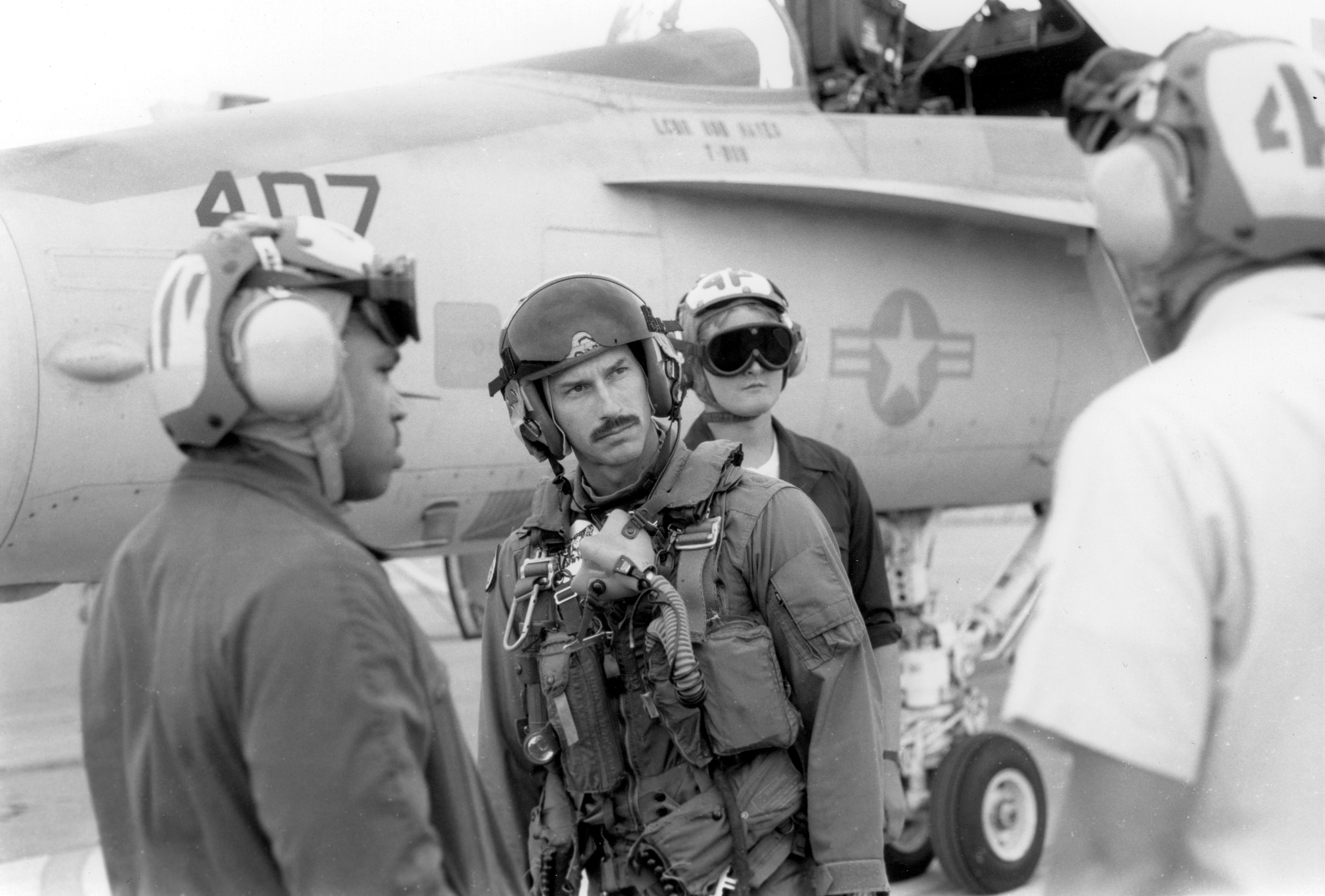 Dan in flight suit getting ready to launch